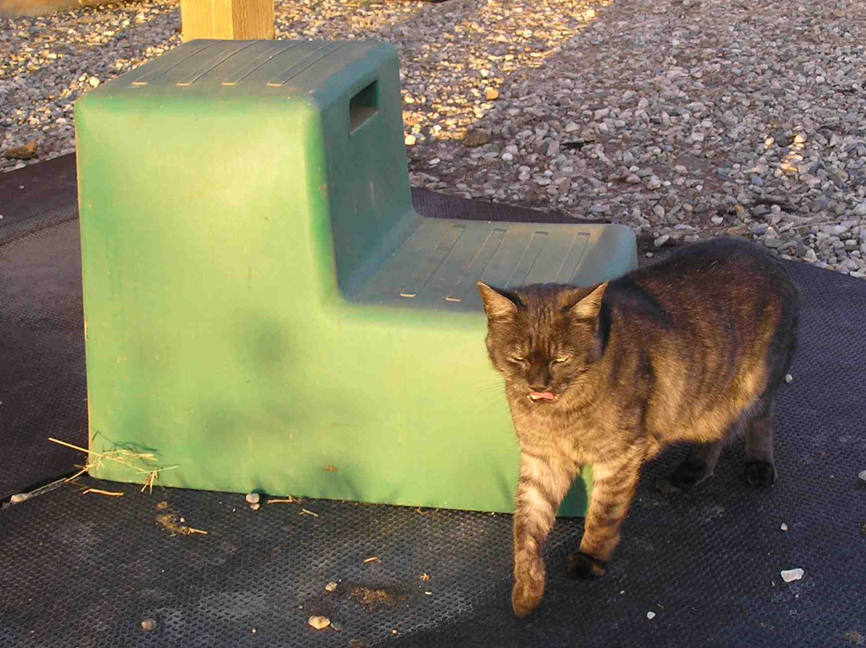 A mounting block, used to help people get onto a horse. Barn cat volunteered to provide size perspective